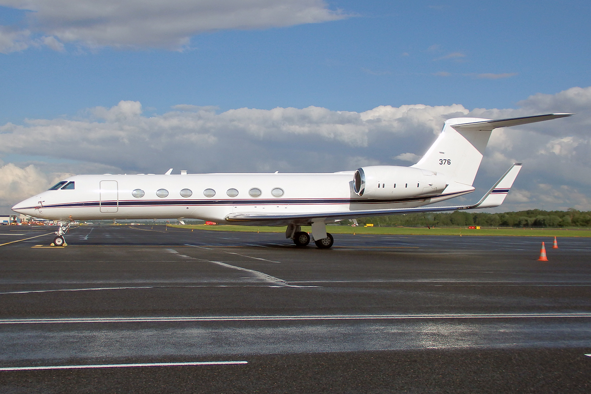 U.S. Navy, 166376 "VV100", Gulfstream G550 C-37B